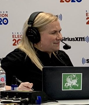 If you’re in your car or near a radio, tune into @SIRIUSXM with @juliemason now! Talking about the #FITN primary and what’s to come in the next day.